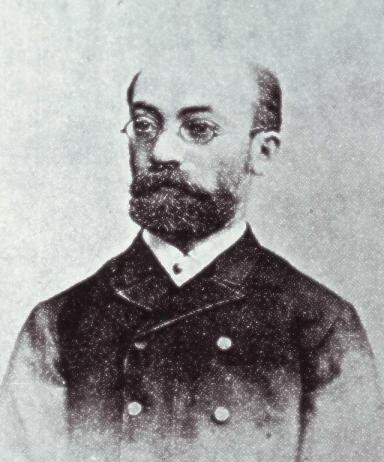 L. L. Zamenhof, initiator of Esperanto